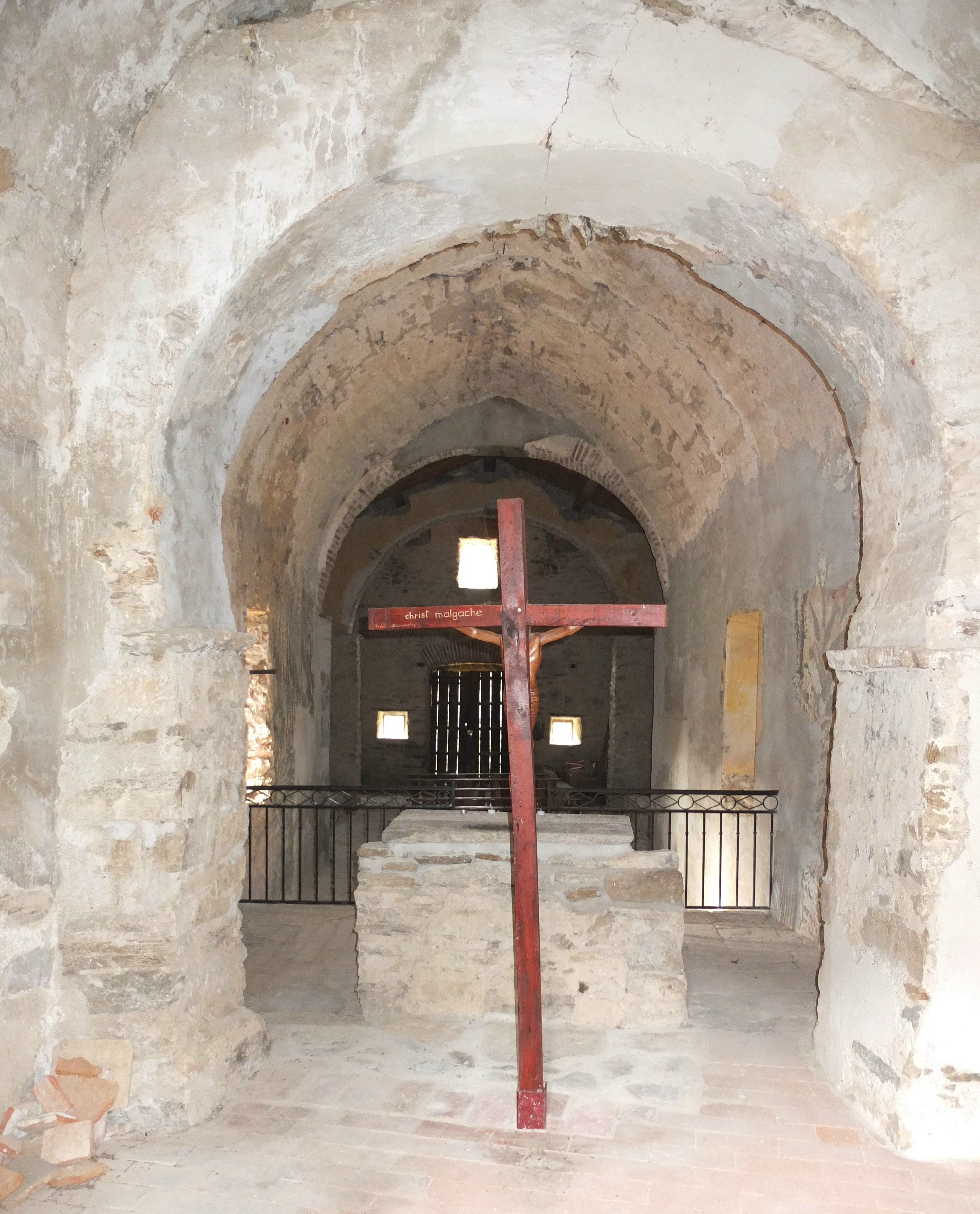 The chapel Saint-Ferréol de la Pava or Sant Ferriol de la Pava is a 10th ctry., situated at the hamlet La Pave (near Argelès-sur-Mer) (The interior of the chapel)